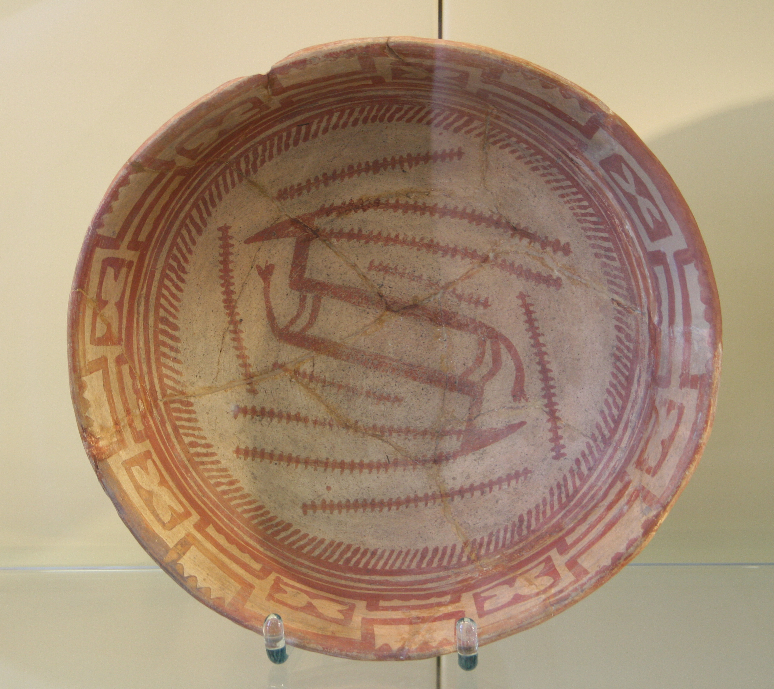 Samarra period fine ware, c. 6200-5700 BC, Vorderasiatisches Museum (Near East Museum), Berlin